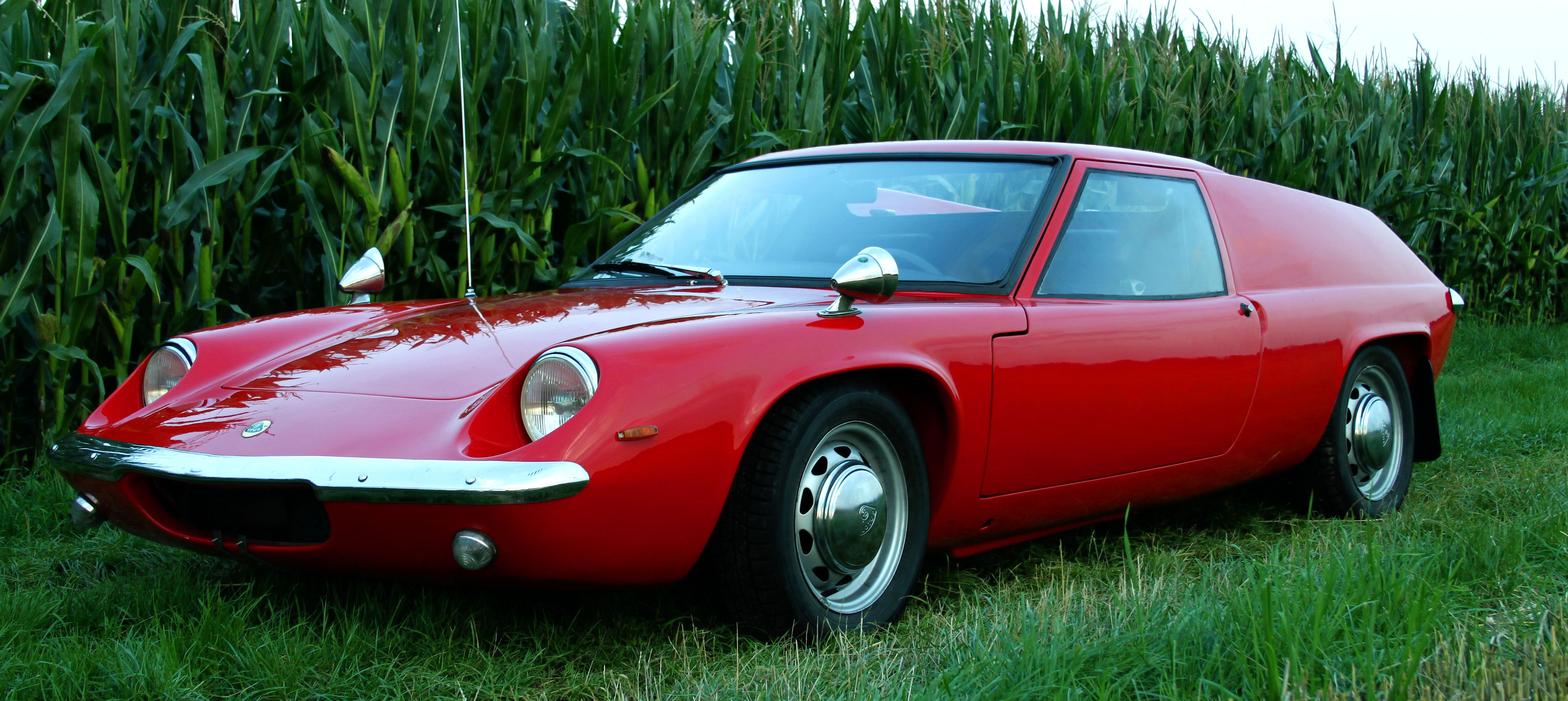 Lotus Europa S1 Serialnr 46-0149, Immatr. August 1967